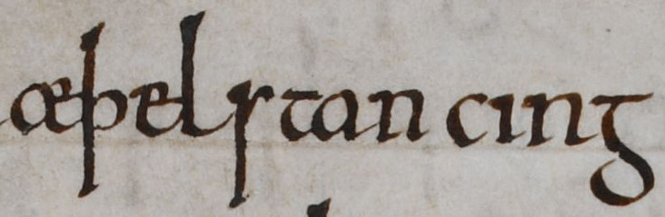 The name of Æðelstan, King of the Anglo-Saxons (died 939) as it appears on folio 141r of British Library Cotton MS Tiberius B I (the "C" version of the Anglo-Saxon Chronicle): "Æþelstan cing".